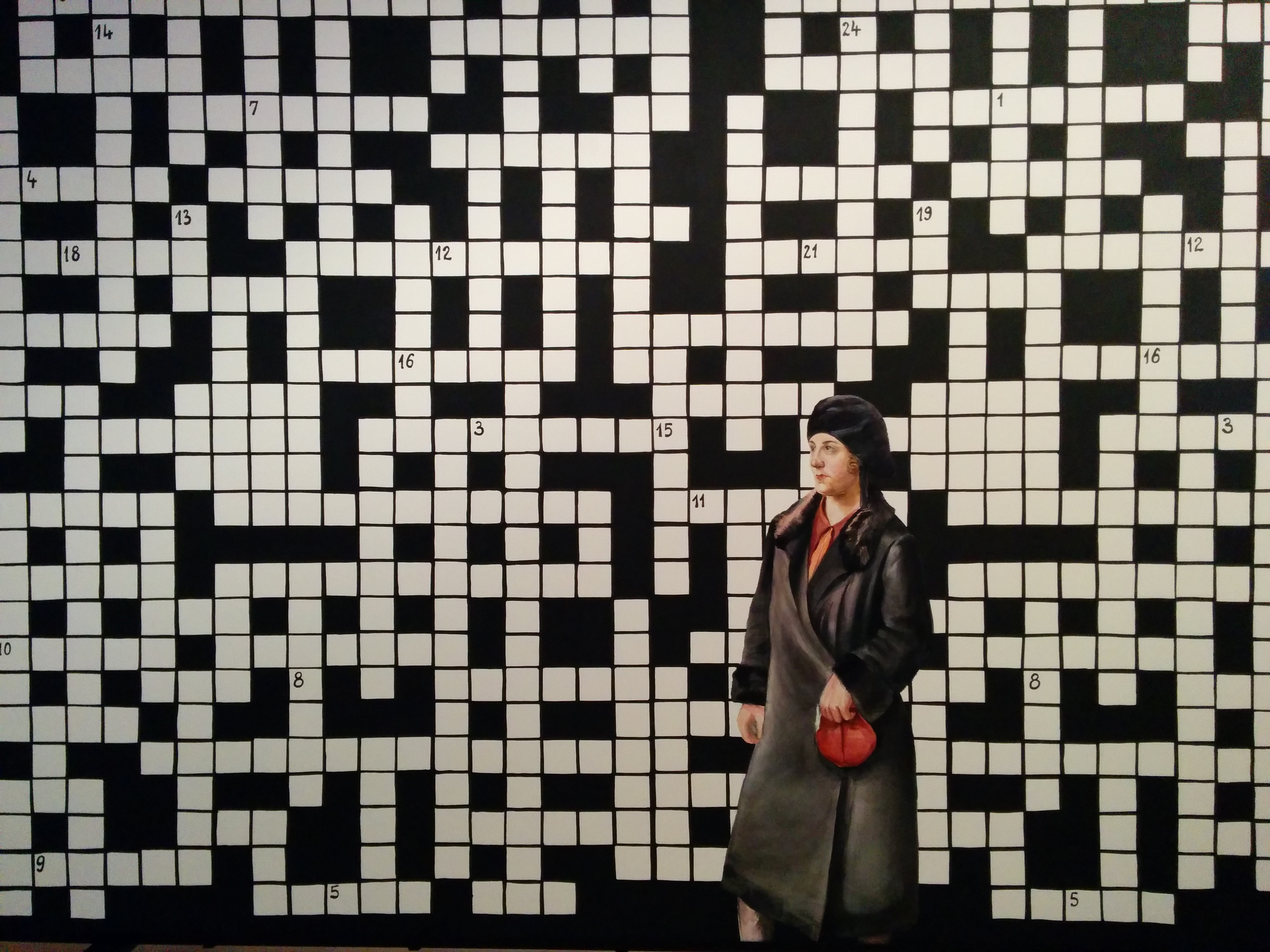 Crossword Puzzle with Lady in Black Coat, by Paulina Olowska. On display in the Stedelijk Museum.